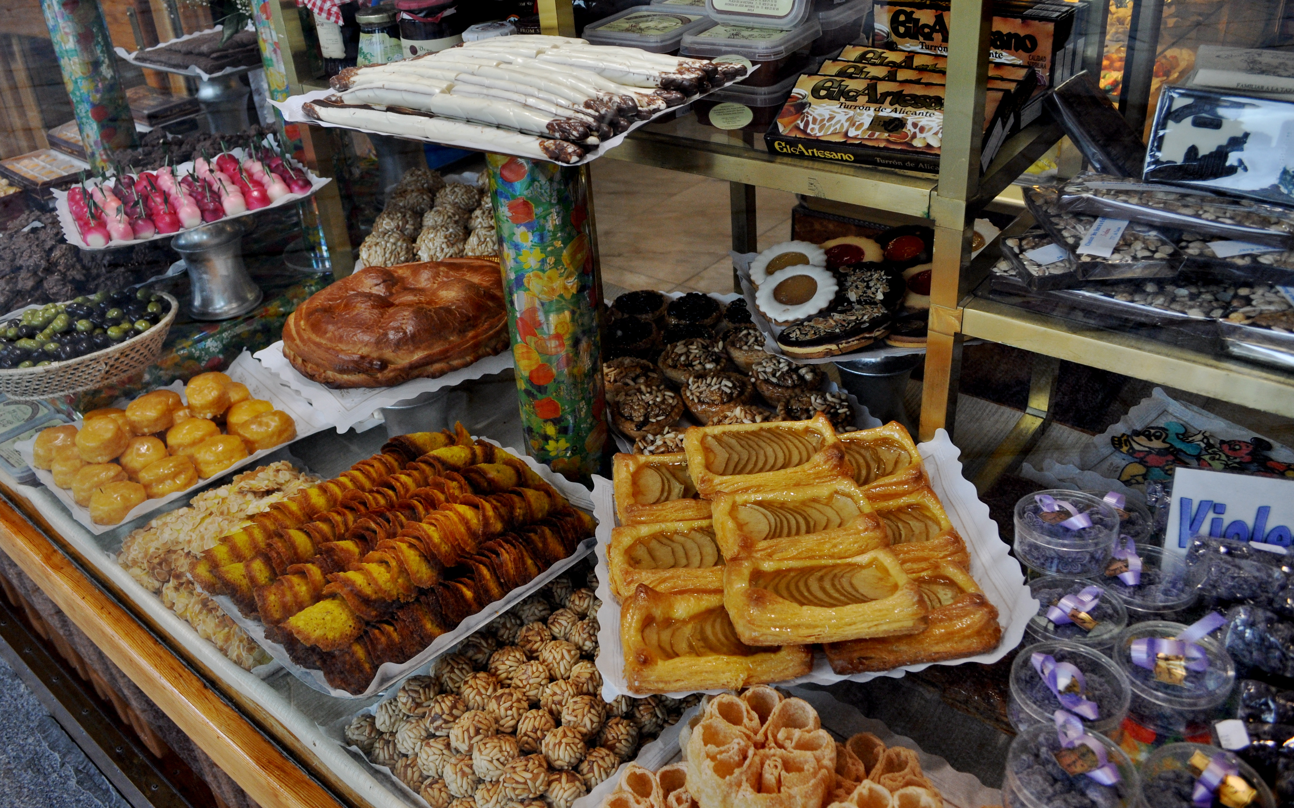 Photos taken during a walk around the walled city of Ávila, that was constructed begining in the 11th century.